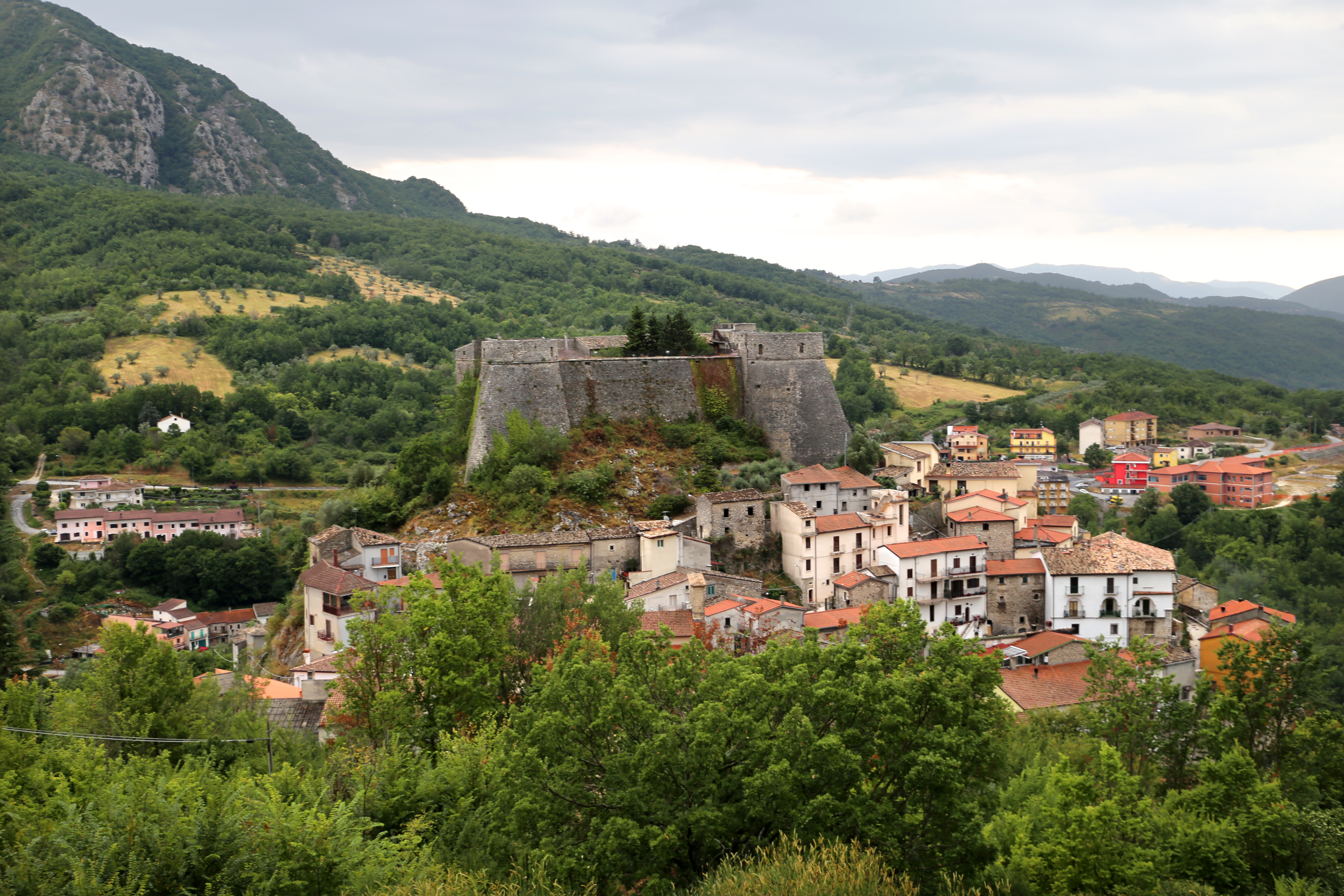 Cerro al Volturno